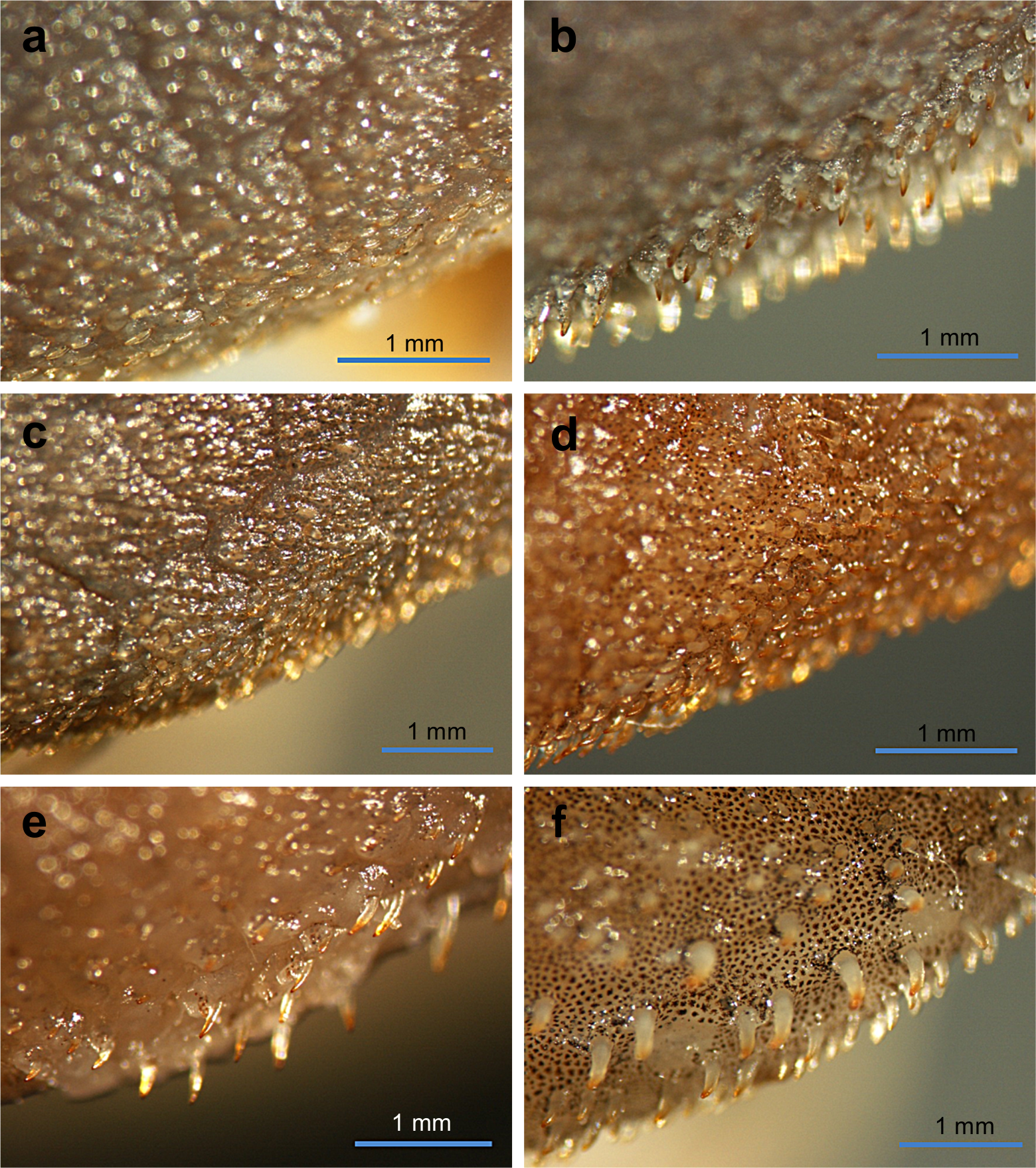 Fig 18. Posterior part of left margin of snout of Guyanancistrus spp. a, Guyanancistrus brevispinis, MHNG 2683.029, 63.0 mm SL; b, G. nassauensis AUM 50763, 61.0 mm SL; c, G. longispinis, MHNG 2680.049, 73.3 mm SL; d, G. tenuis, MHNG 2765.067, 64.7 mm SL; e, Cryptancistrus similis, holotype, MZUSP 117150, 61.7 mm SL; f, Hopliancistrus tricornis, MHNG 2588.051, 61.6 mm SL.